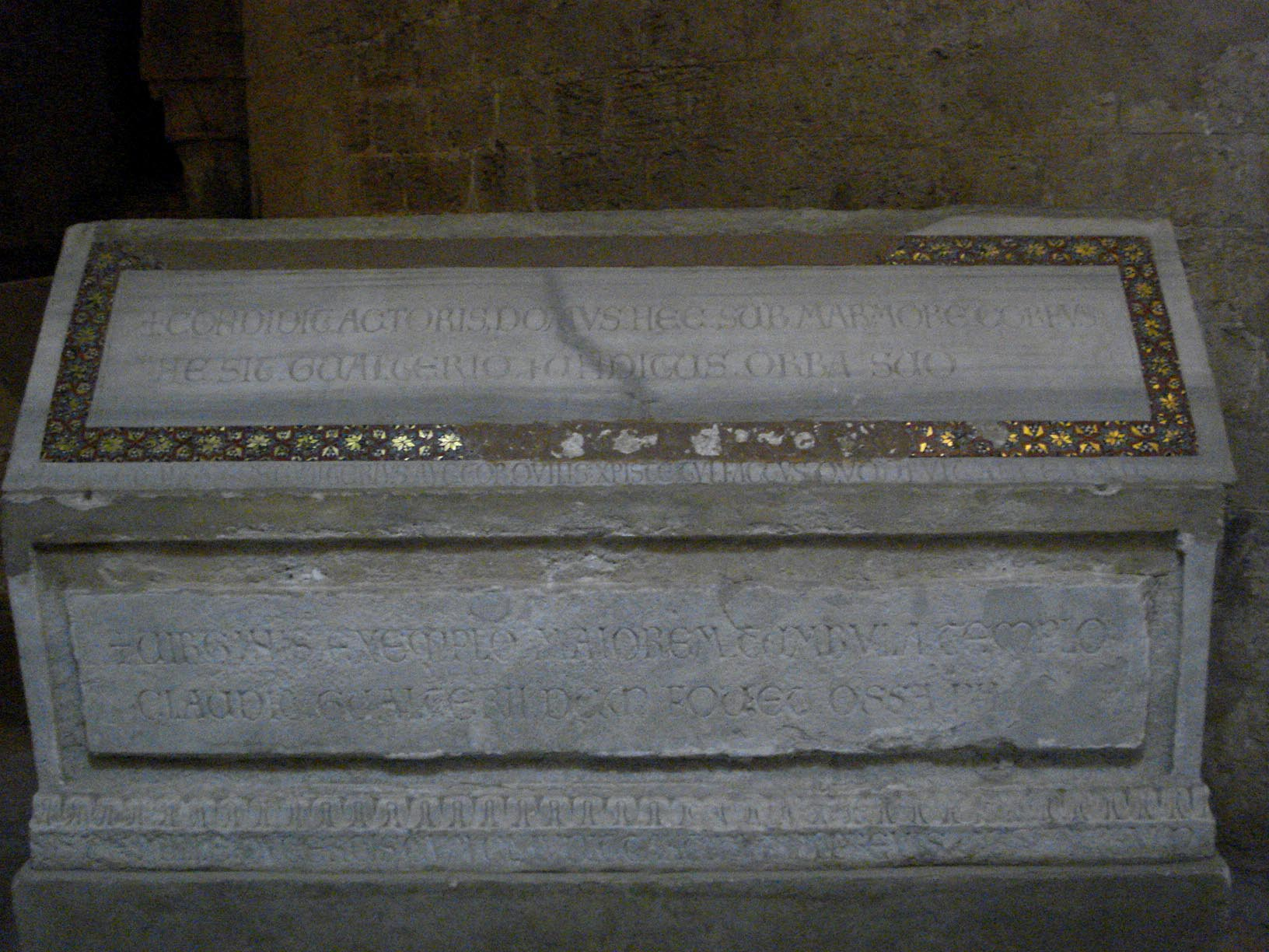 Walter of Mill's sarcophagus in Palermo Cathedral